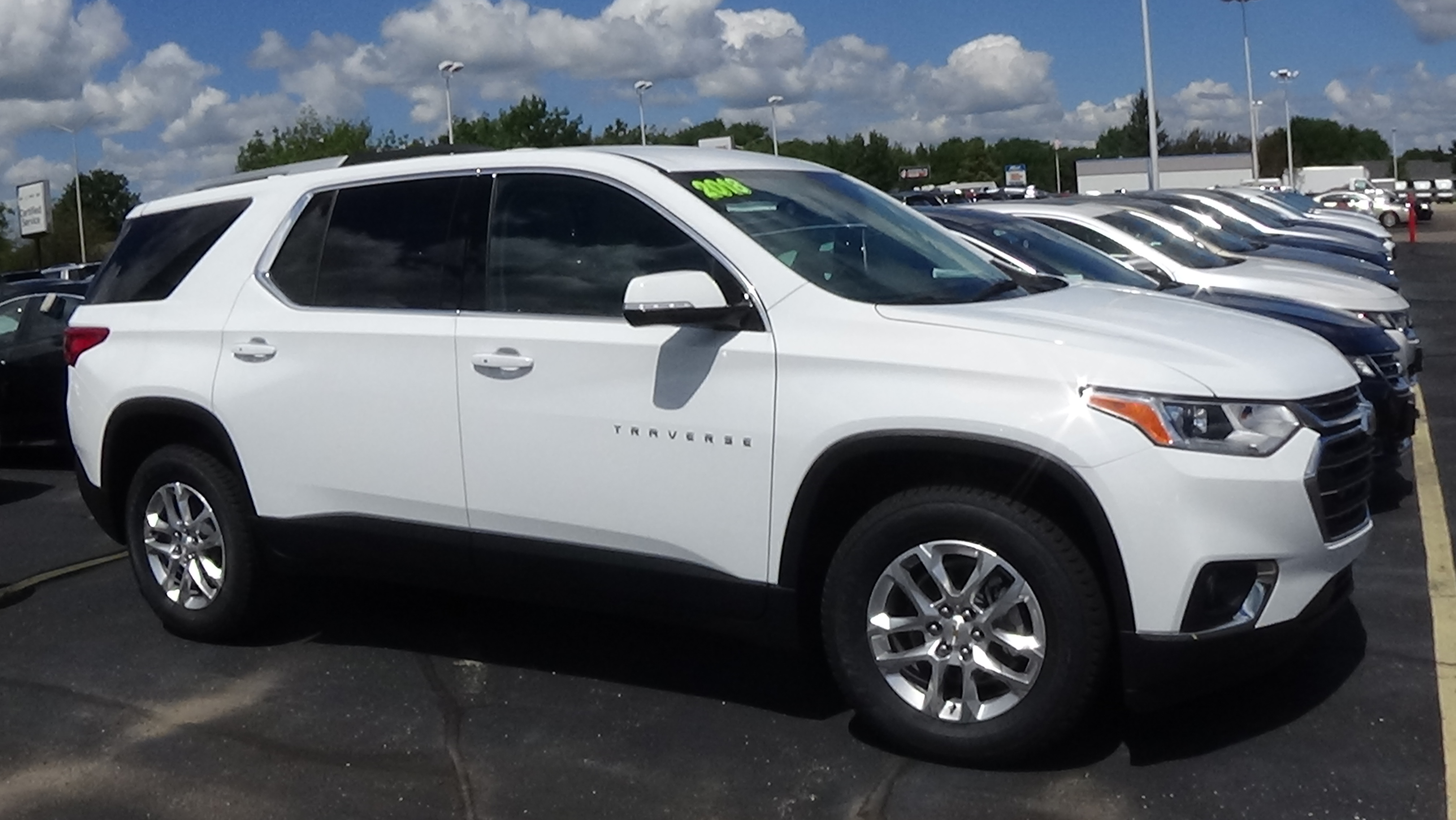 2018 Chevrolet Traverse LT in Janesville Wisconsin